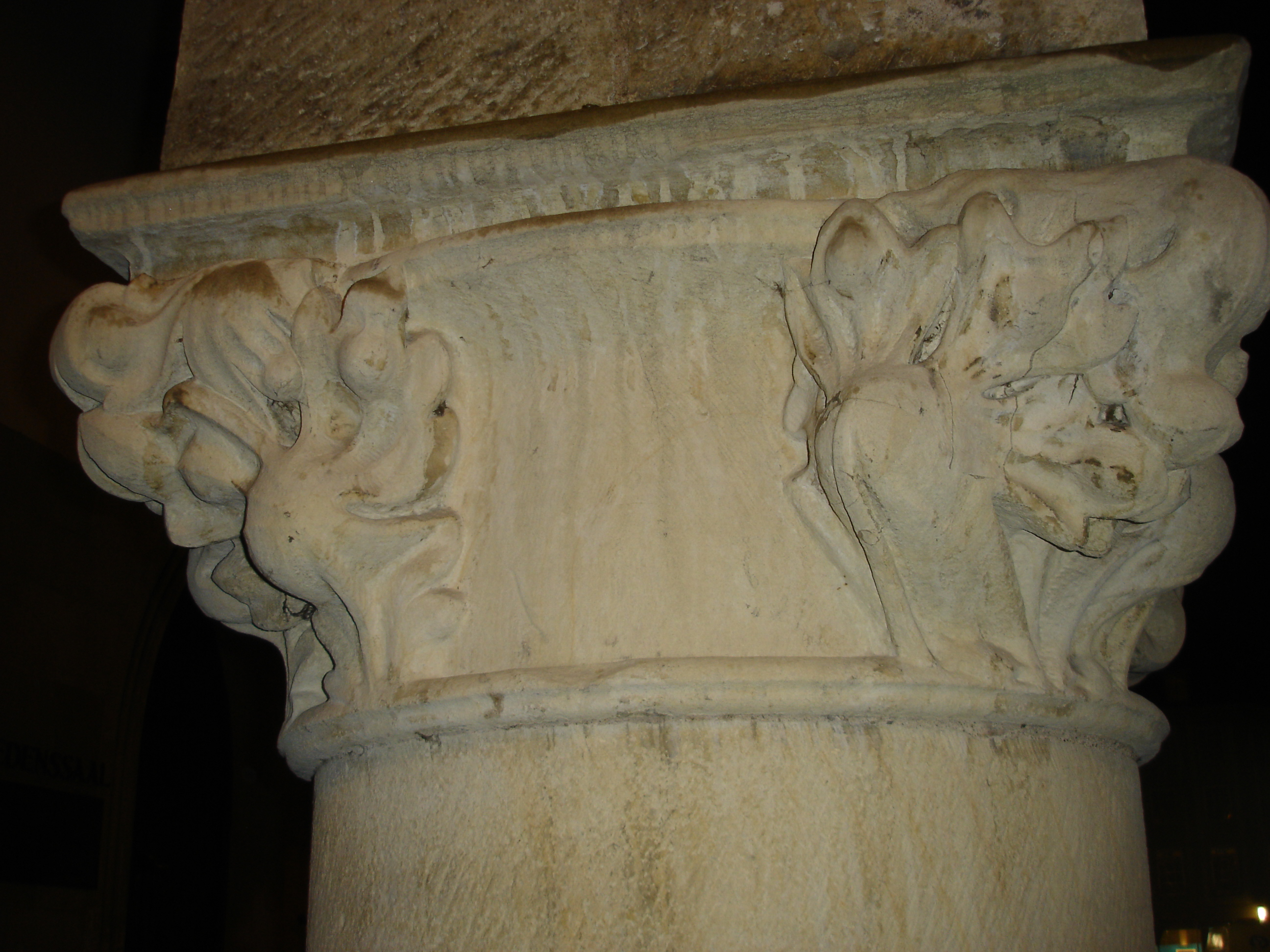 A capitel at the historical city hall of Münster, Westphalia, Germany